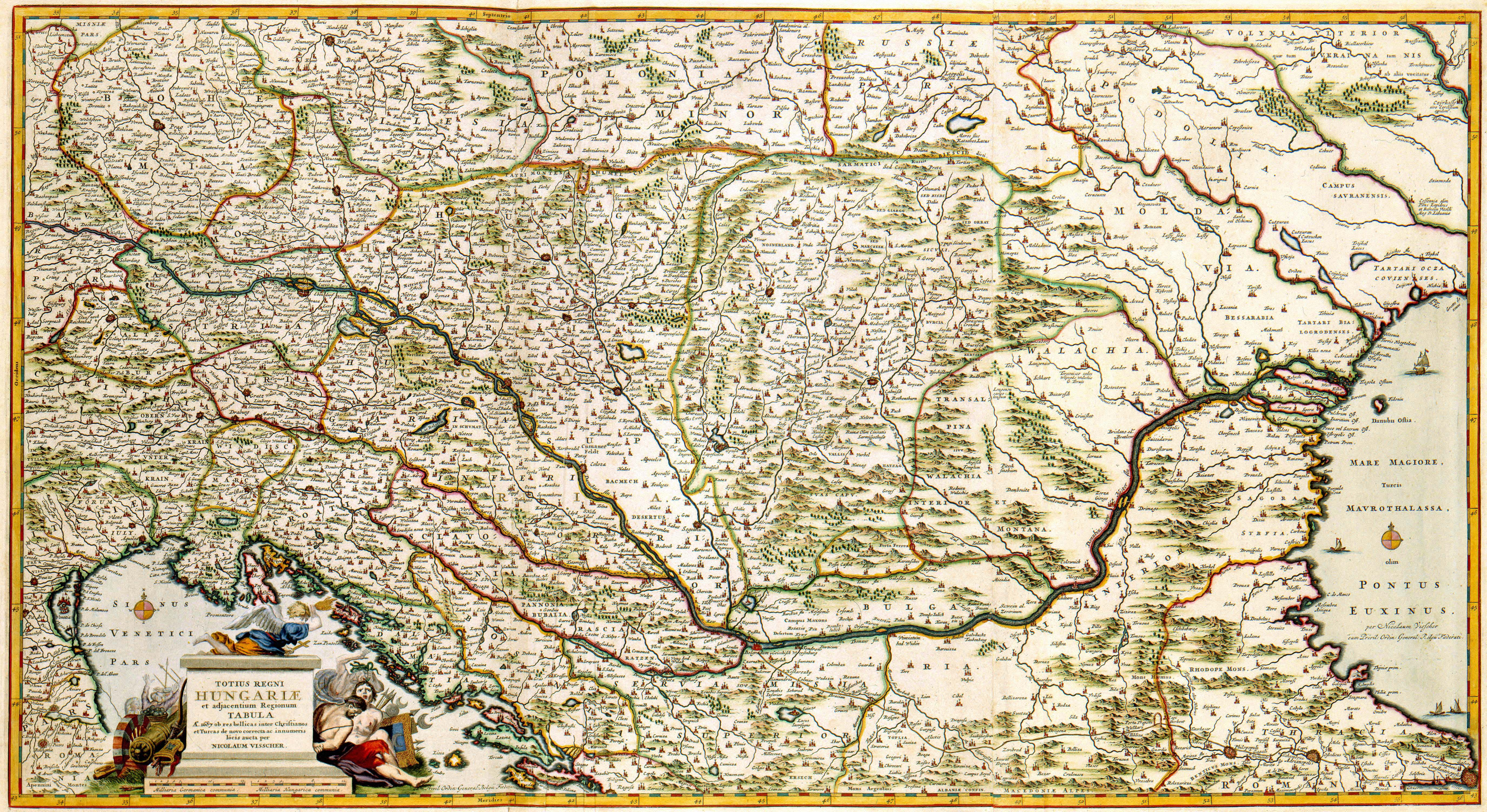 Hungary was besieged by the Turkish Empire between 1526 and 1686. Hungary formed an ideal basis for military operations to the Habsburg Empire. After a fruitless attempt to conquer the city of Vienna, the Turkish army was forced back by allied christian troops. The battle which most of the time took place on Hugarian soil, was followed all over Western Europe. Many detailed maps on which all the movements of the army and the developments of the battle could be followed were published. This war map was published by Nicolaes Visscher II (1649-1702).